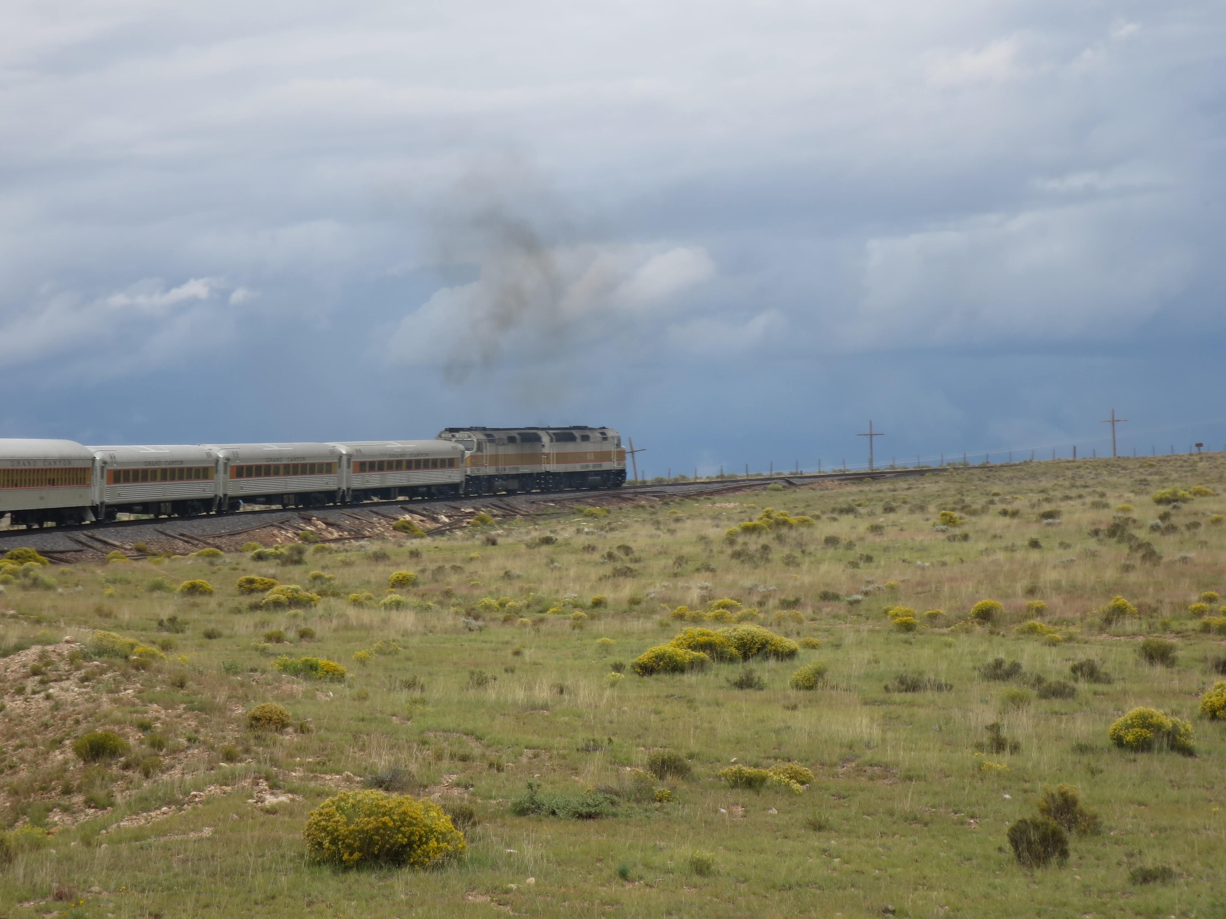 GCRy Train on the plains